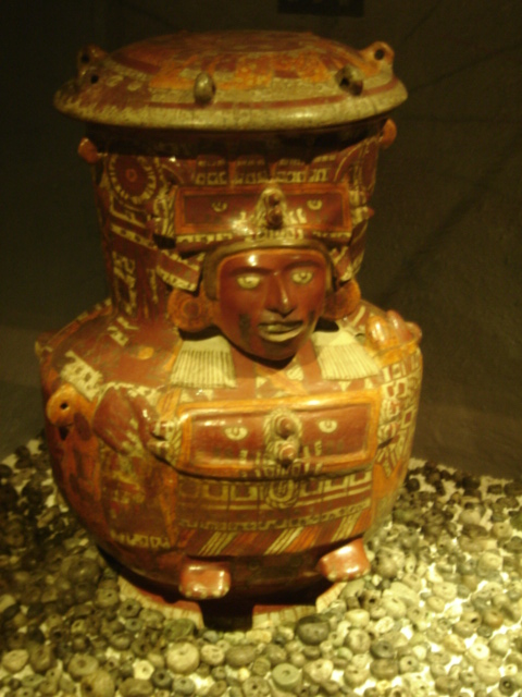 ceramic from templo mayor in mexico city